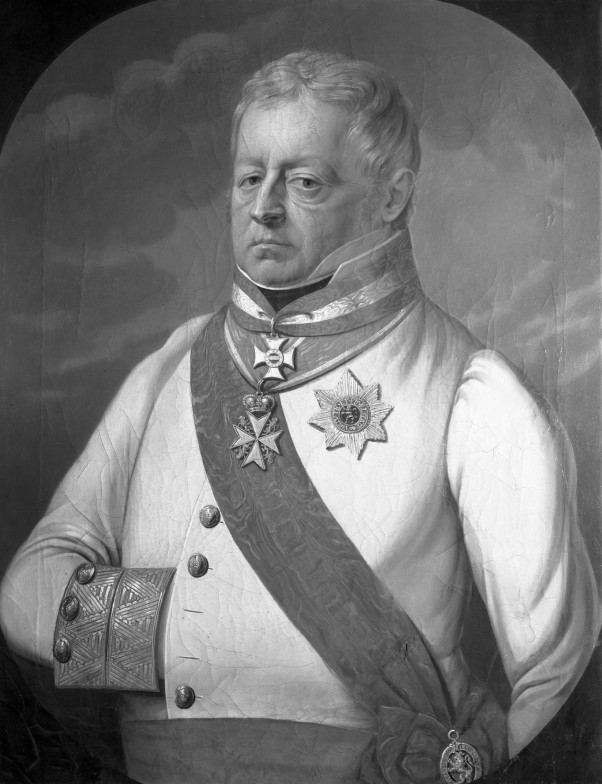 Portrait du général Michael Kienmayer (1755-1828). Huile sur toile.